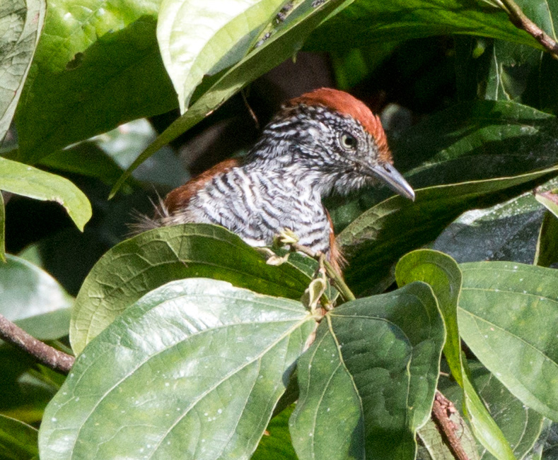 Linded Antshrike, Copalinga Ecolodge near Zamora, Ecuador